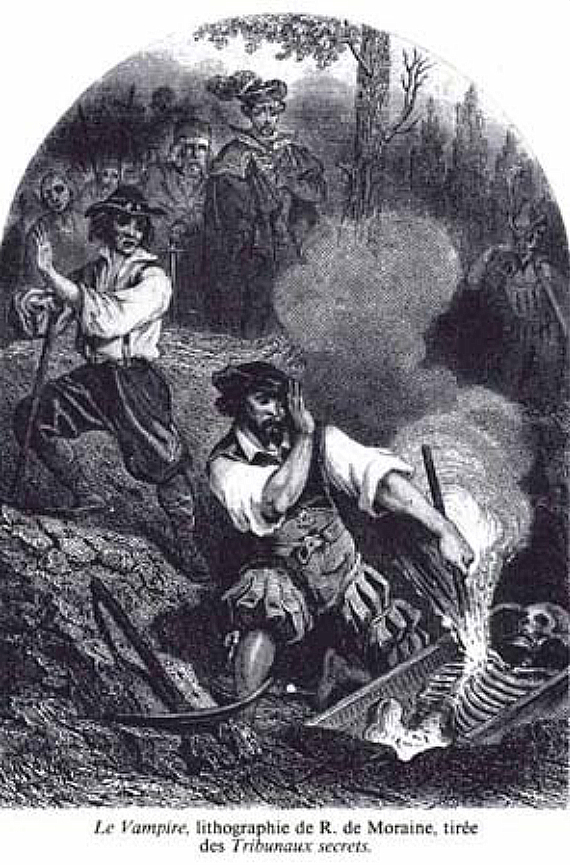 “The Vampire”, lithograph by R. de Moraine (1864). From: Féval, Paul-Henri-Corentin. (1864) "Les Tribunaux Secrets." Paris: Boulanger et LeGrand. Vol. 2, p. 112.